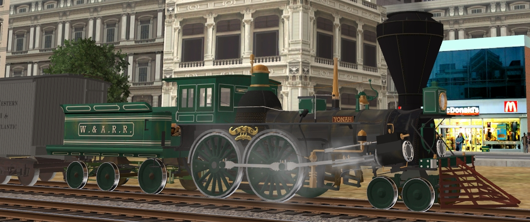 Virtual model of the Western and Atlantic Railroad's "Yonah" locomotive, modeled for Auran's Trainz Railroad Simulator.